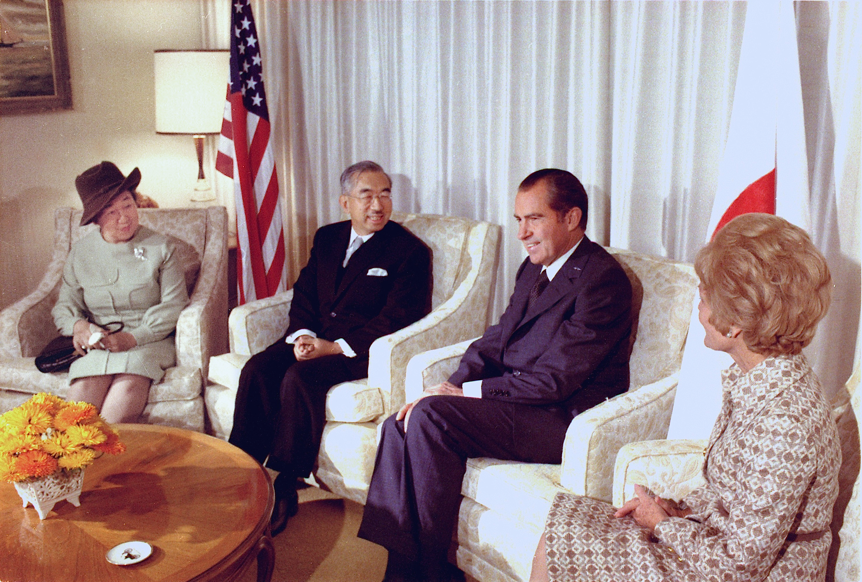 Japanese Emperor Shōwa (Hirohito) and Empress Kōjun (Nagako) meet US President Nixon and Mrs. Nixon at Anchorage International Airport on their way over to Europe on September 26, 1971. Although this was an unofficial meeting, it marked as the first time ever face-to-face meeting of the two countries' heads of state on throne/in office. The Emperor and the Empress would officially visit the US in 1975 and meet President and Mrs. Ford at the White House.